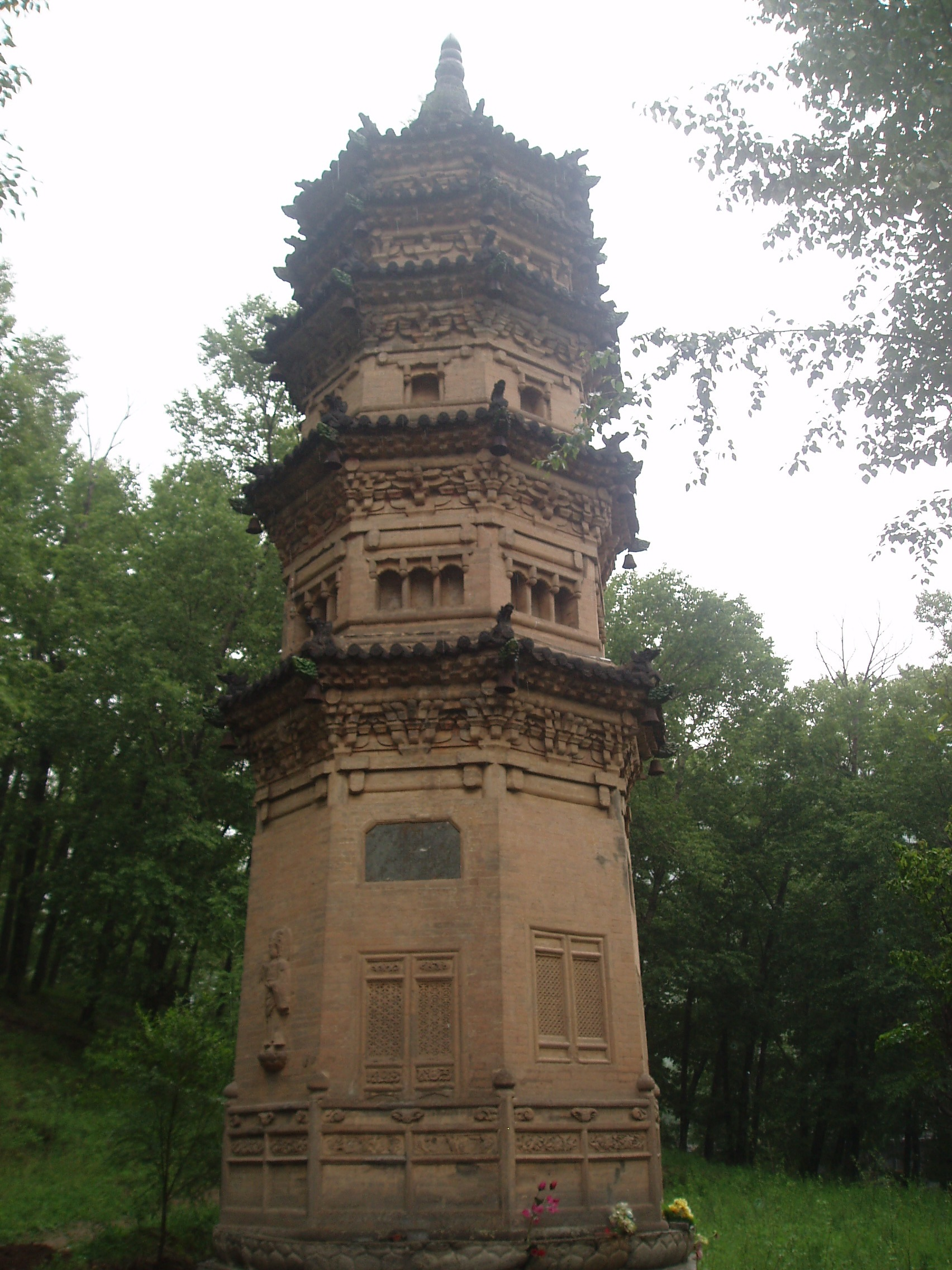 The Pagoda at the Lingfeng Temple in Wutaishan, China. The stupa is the oldest architecture in the temple. It is about 20 metres (66 ft) high and built of brick held together with clay mortar. The stupa was octagonal with five stories. The sumeru throne engraved patterns of Eight Heavenly Kings (Eight Diamond Kings). On the second floor, each side is carved with three Buddha statues. On the third floor, each side is carved with a Buddha statue. On the first floor, it is engraved with the words: "佛日圆照明古州和尚舍昨塔".